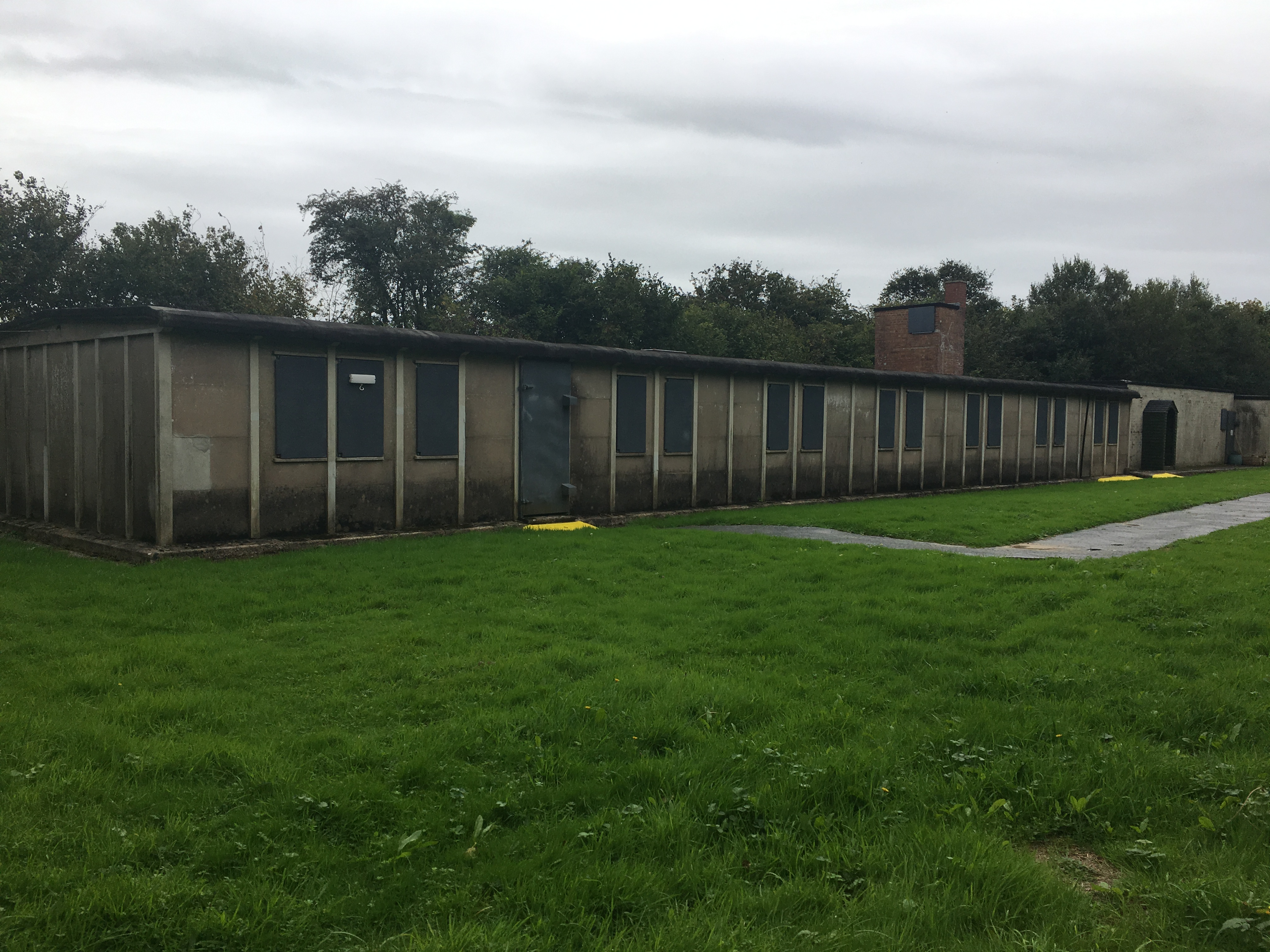 Hut 9 at former Prisoner of War Camp (198) and Special Camp XI, Island Farm Wikidata has entry Q29489831 with data related to this item.